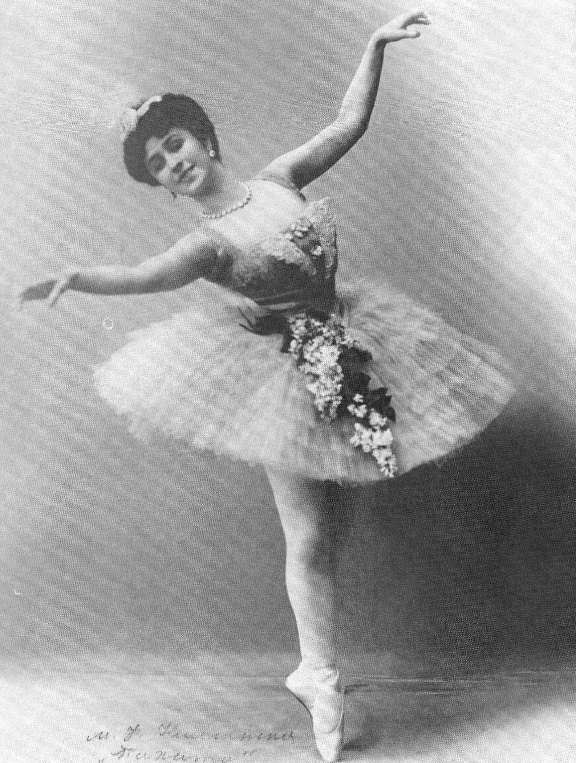 Ballerina Mathilde Kschessinskaya as Nirity in "The Talisman", 1910. It is hand-written in Russian on the bottom of the photo: „M. F. Kschessinskaya – Paquita“